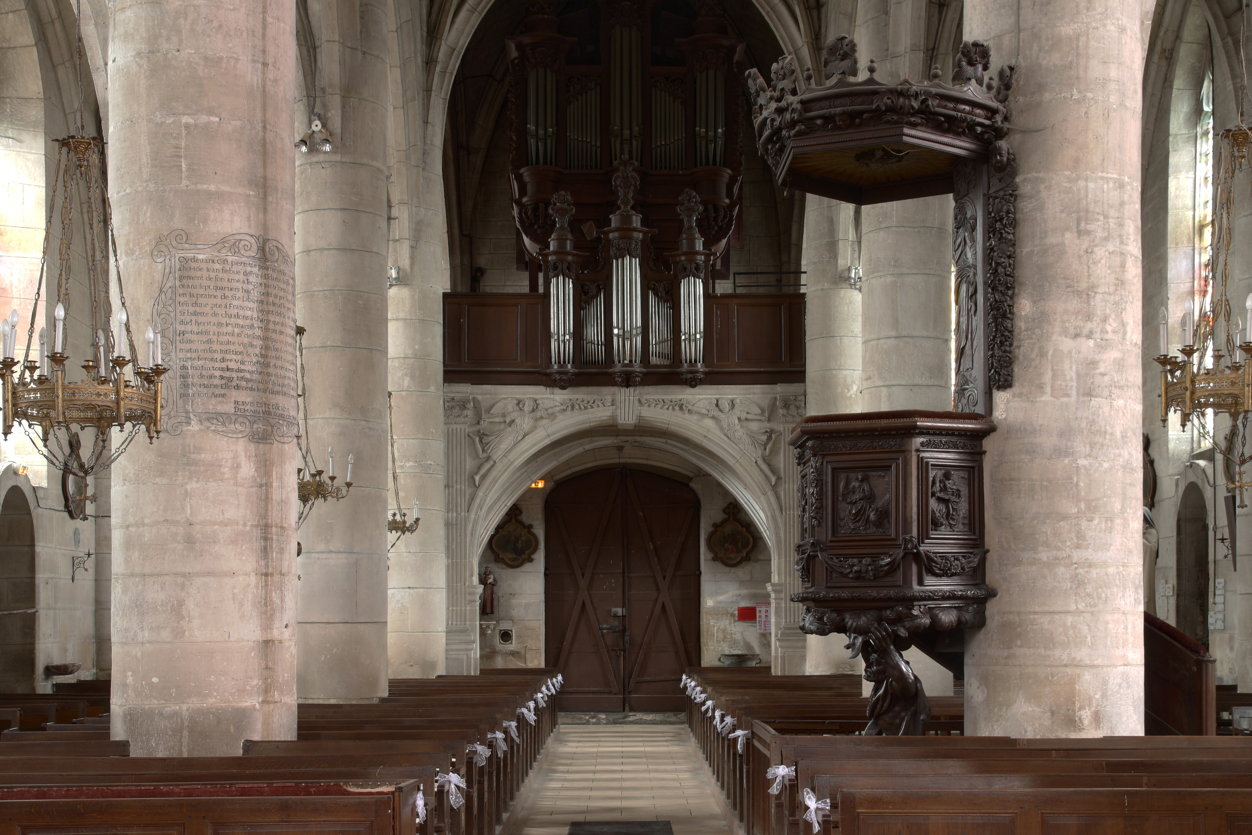 The organ of the church of Éclaron.